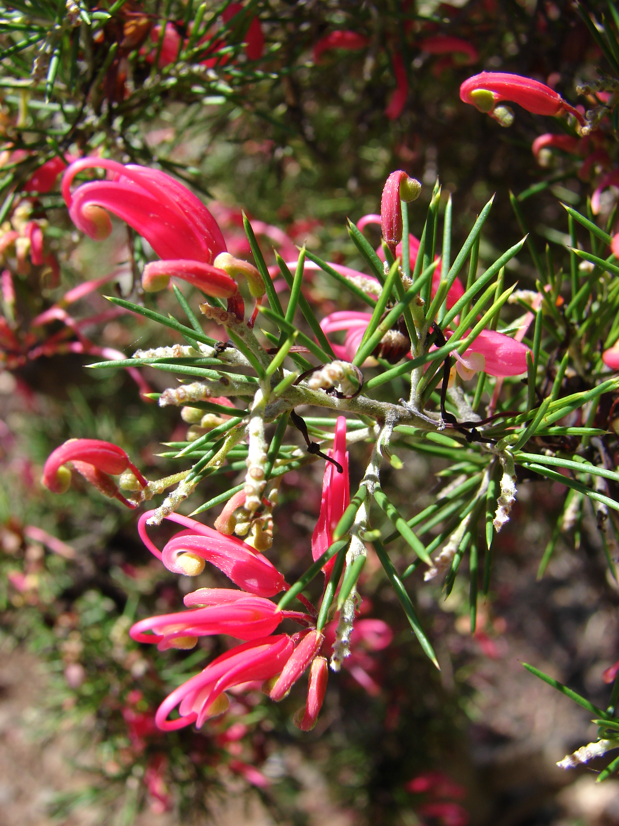 Grevillea rosmarinifolia (flowers and leaves). Location: Maui, Enchanting Floral Gardens of Kula